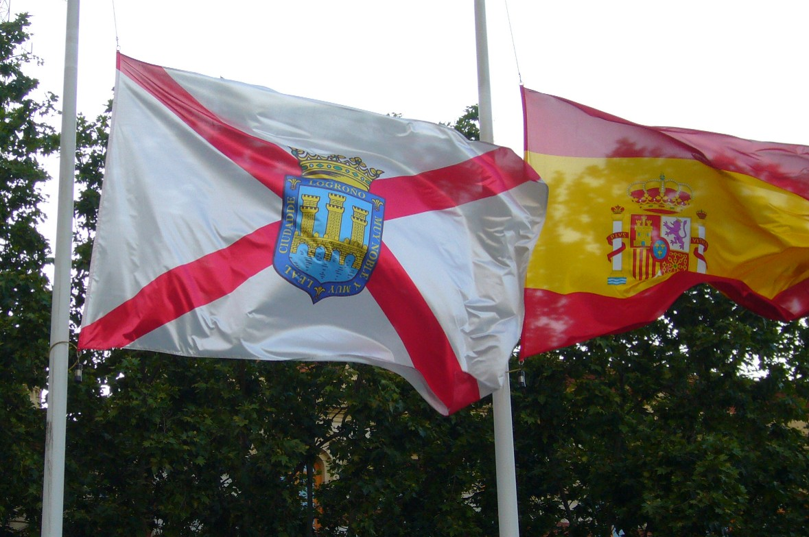 Flags of Logroño and Spain